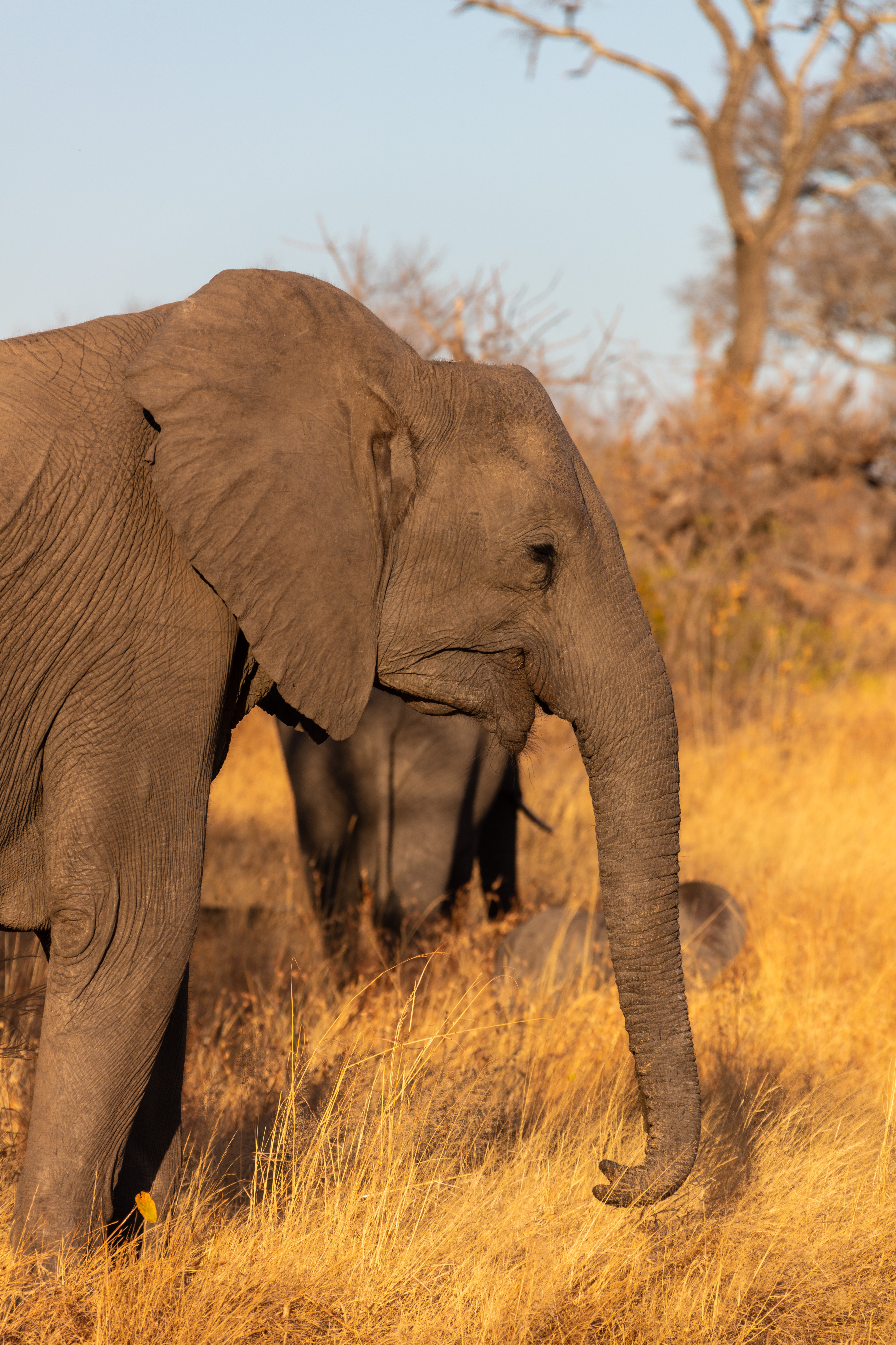 African bush elephant (Loxodonta africana), Kruger National Park, South Africa